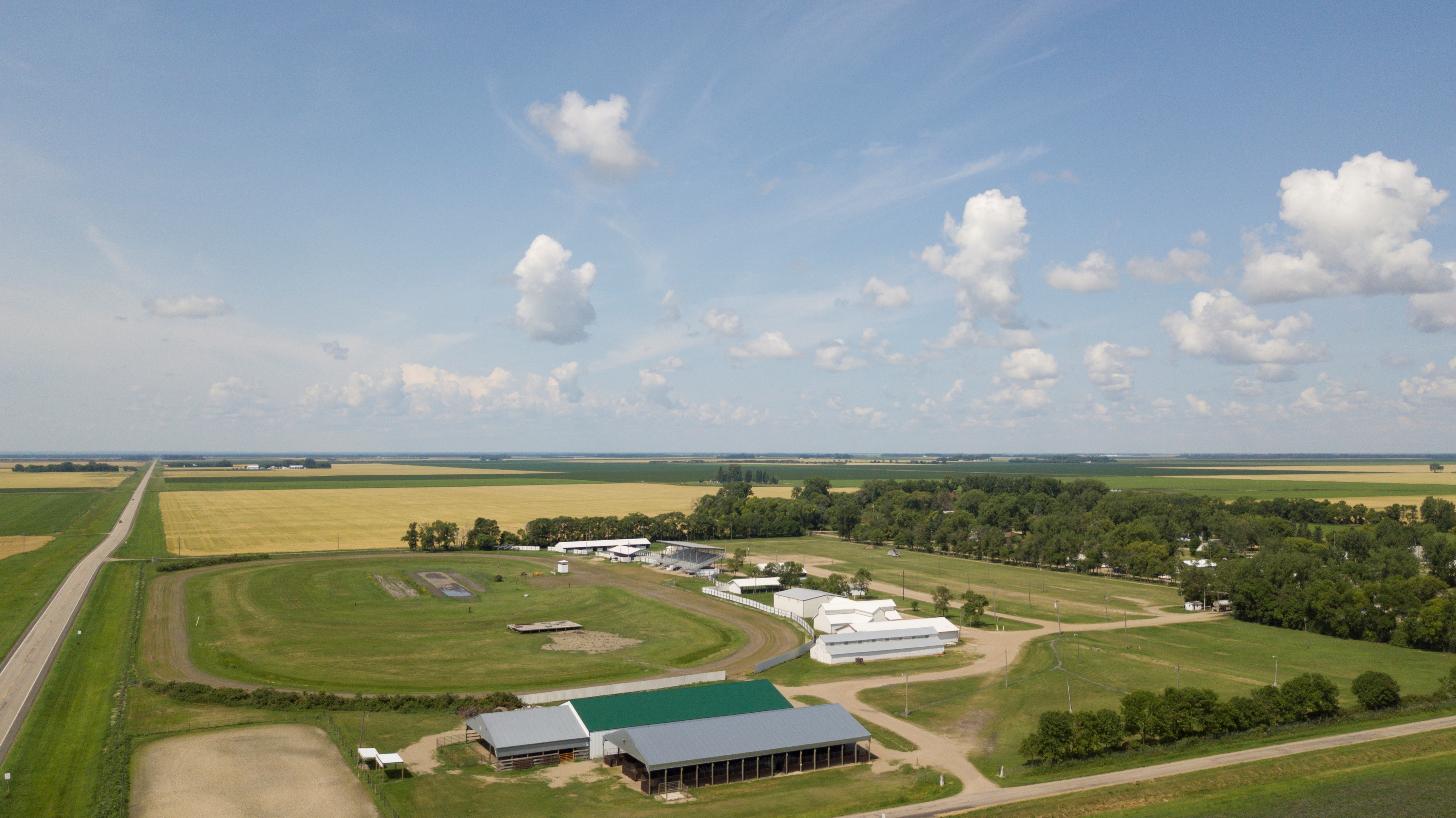 Hamilton, North Dakota - Pembina County Fairgrounds. Taken with a DJI Mavic Pro drone by Neal Martin (originally from Hamilton, ND).